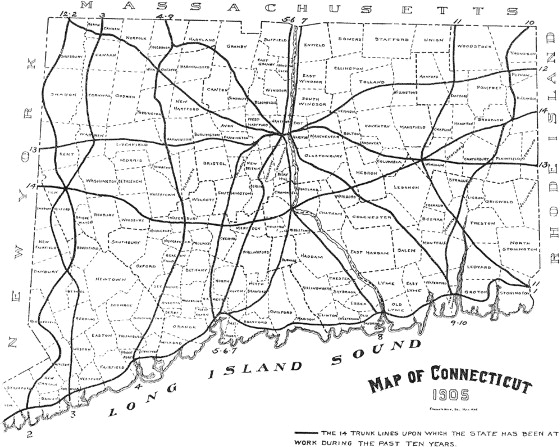 From Biennial Report of the Highway Commissioner, 1913/1914, Connecticut Highway Department, Hartford.